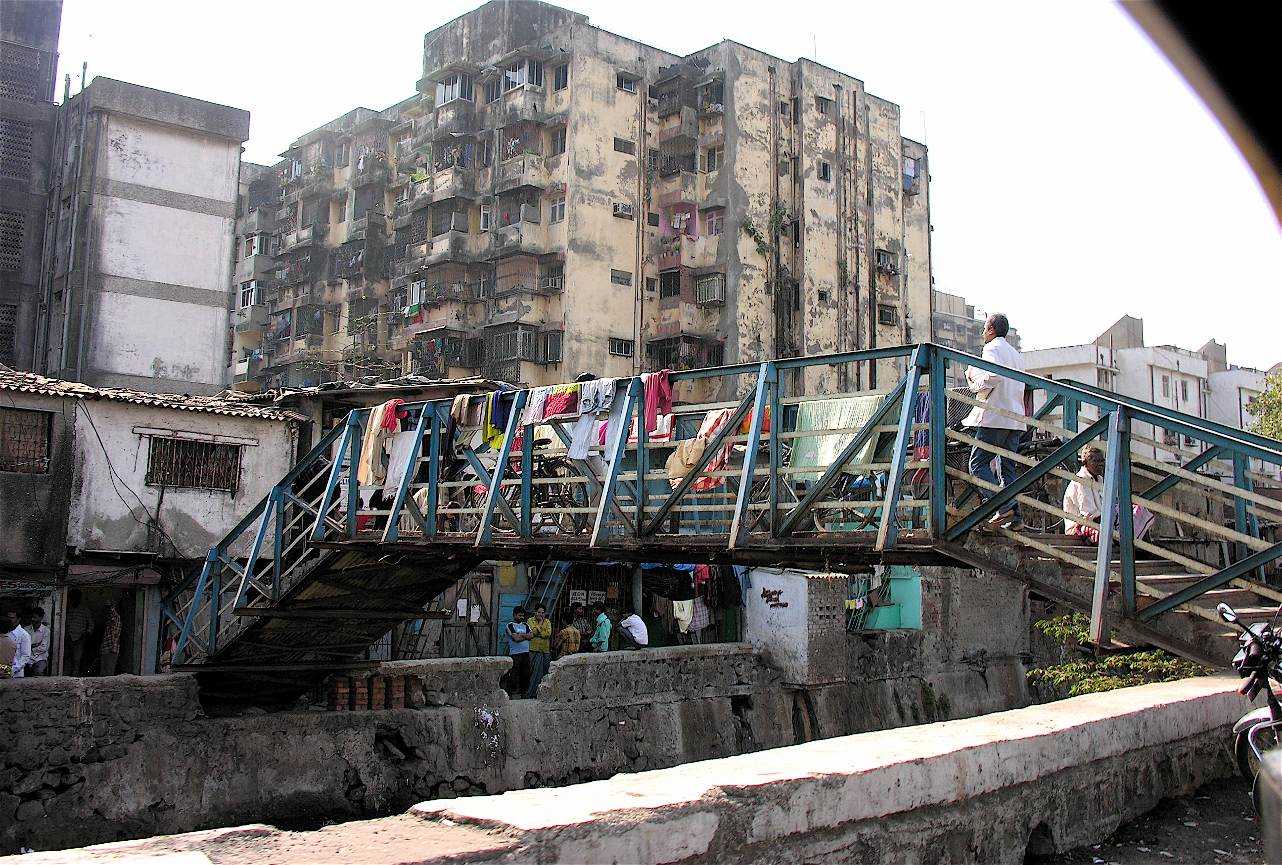 An entrance to the largest slum in Mumbai, and in all of Asia – home to more than one million people.